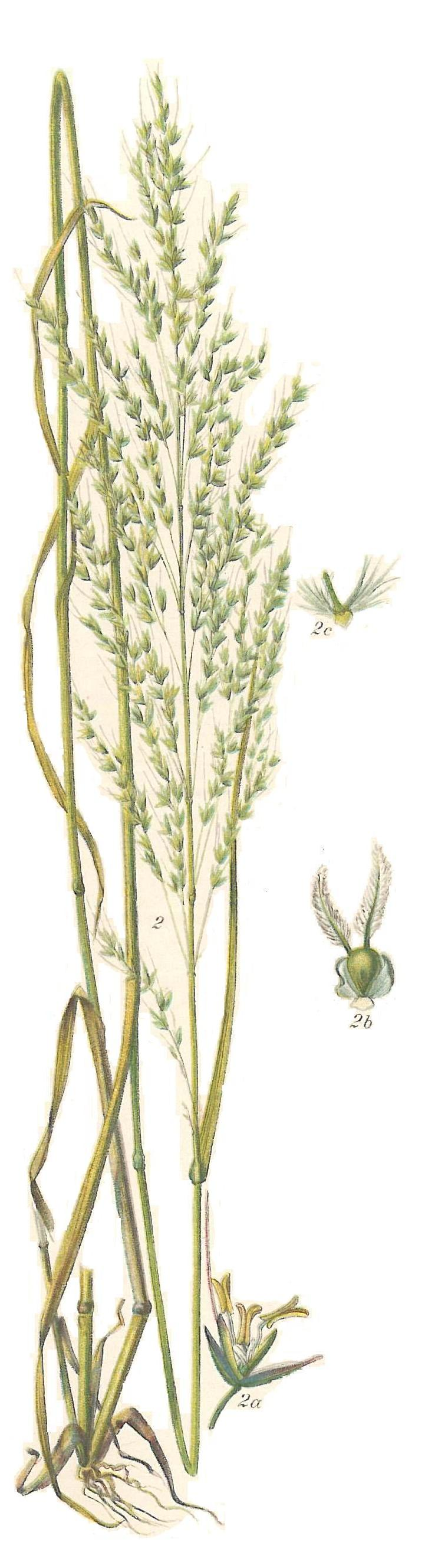 loose silkybent